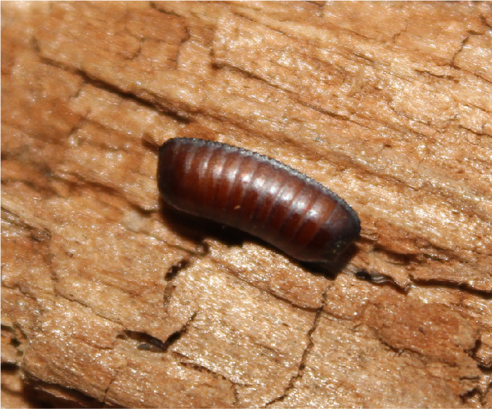 As title